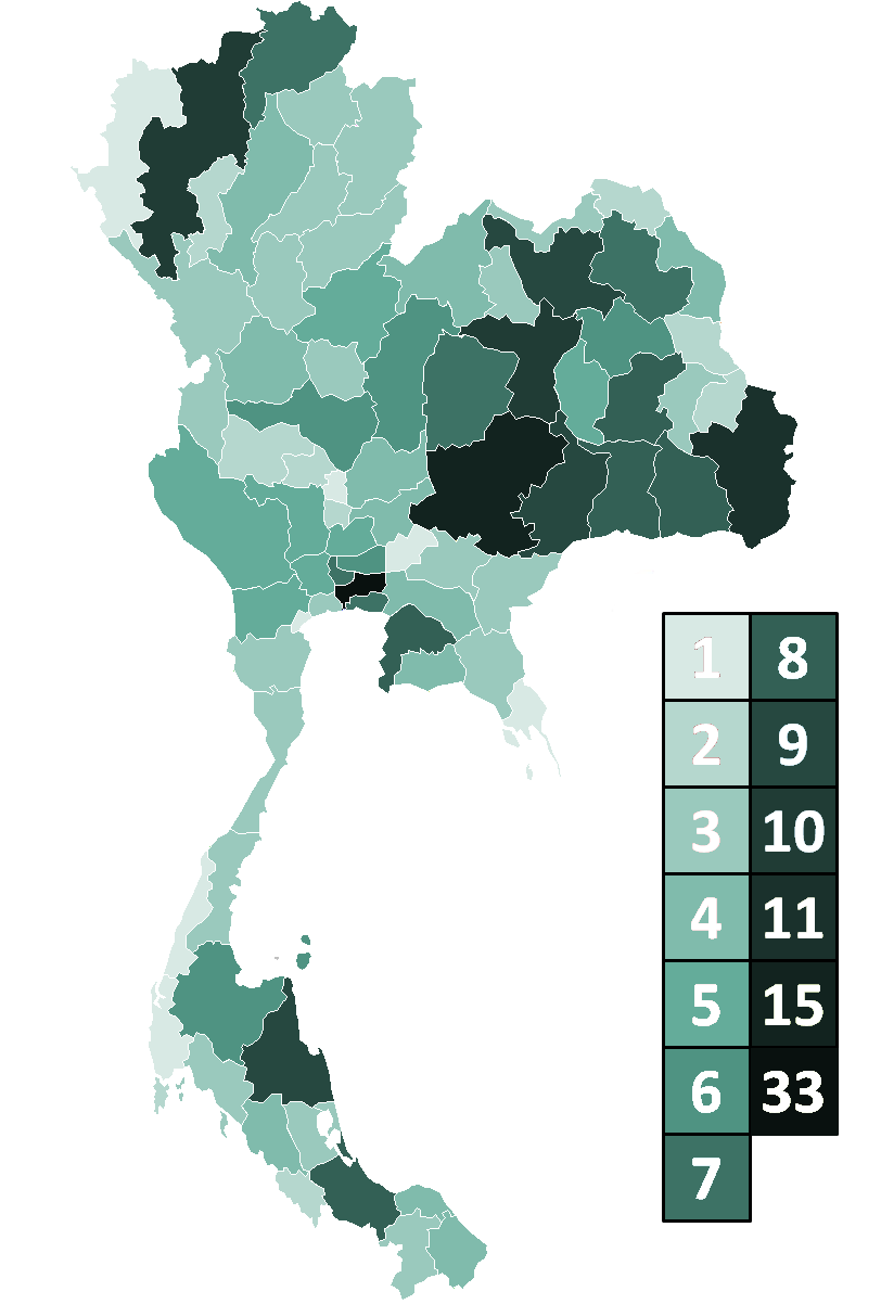 2014 Thai general election seat appropriation per region.png